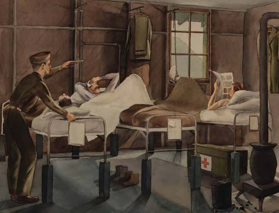 Taking Temperatures by Warren Leopold, 1943, Watercolor on paper